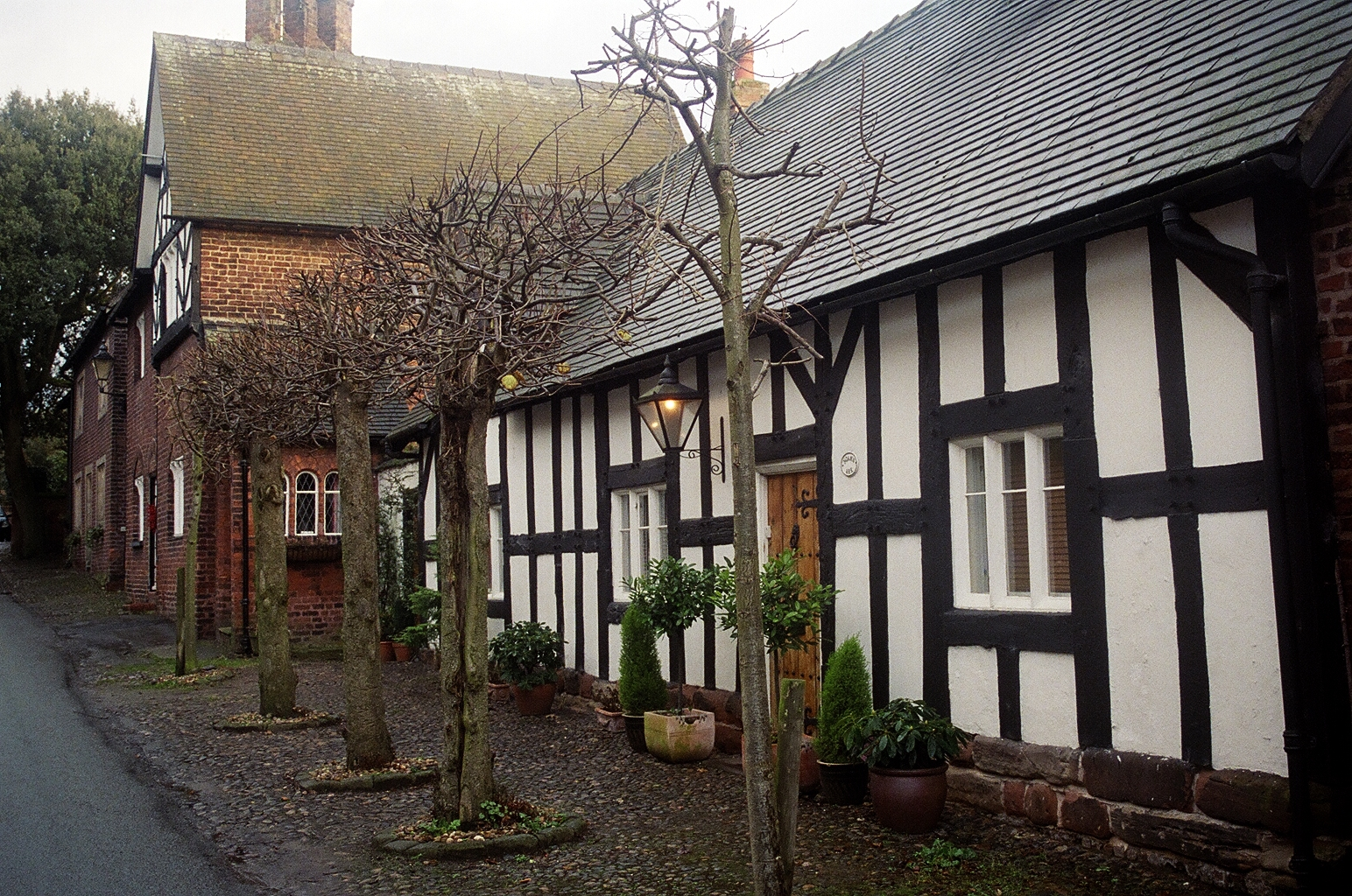 Photograph of Great Budworth village, Cheshire, UK.